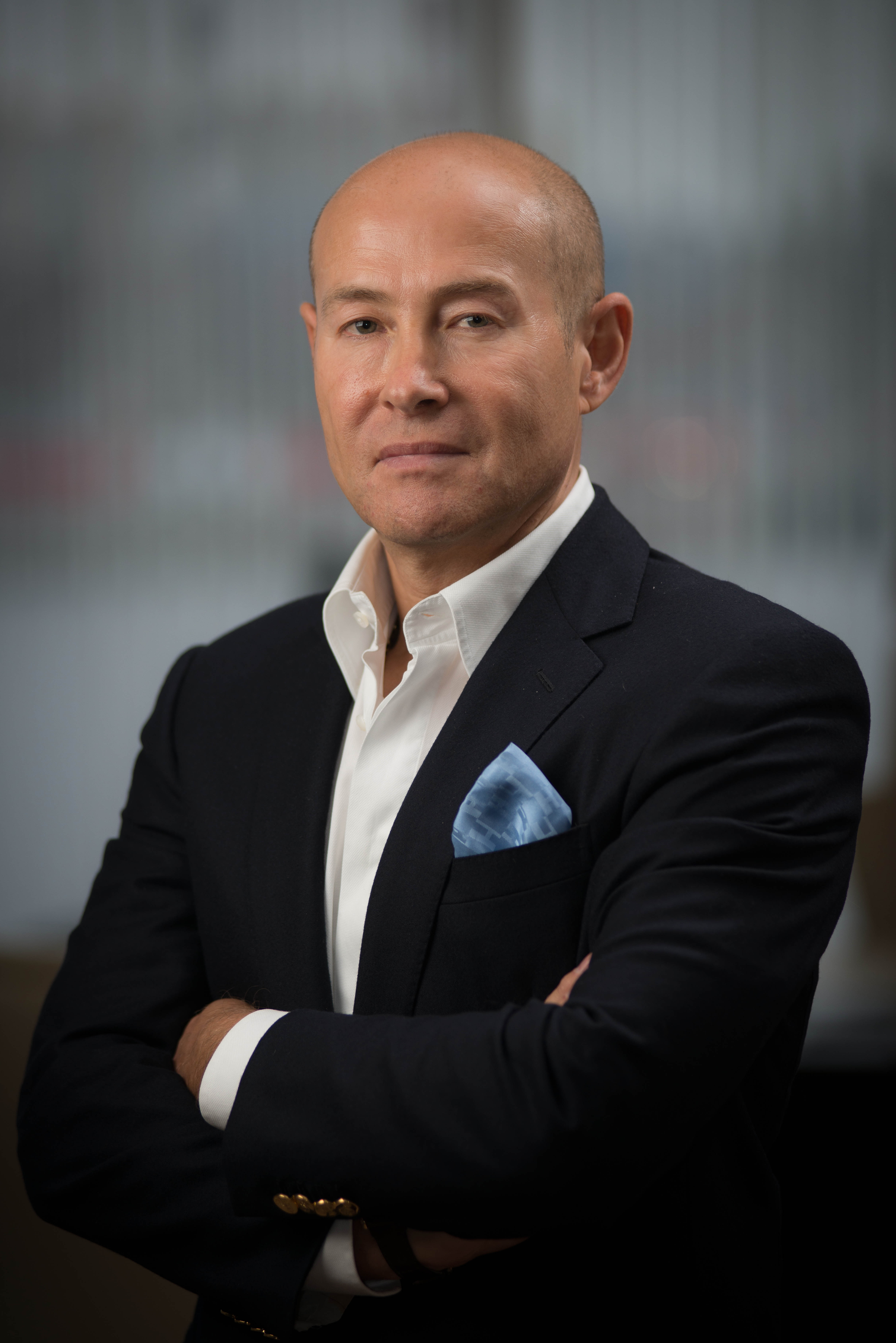 Mikhail Gennadyevich Zingarevich, Russian entrepreneur and philanthropist, an investor in IT, pulp-and-paper and gold mining industries, development, a member of the board of directors of the Ilim Group, President of Plaza Lotus Group, honorary professor of the Highest School of Technology and Energy at the St. Petersburg State University for Technology and Design.